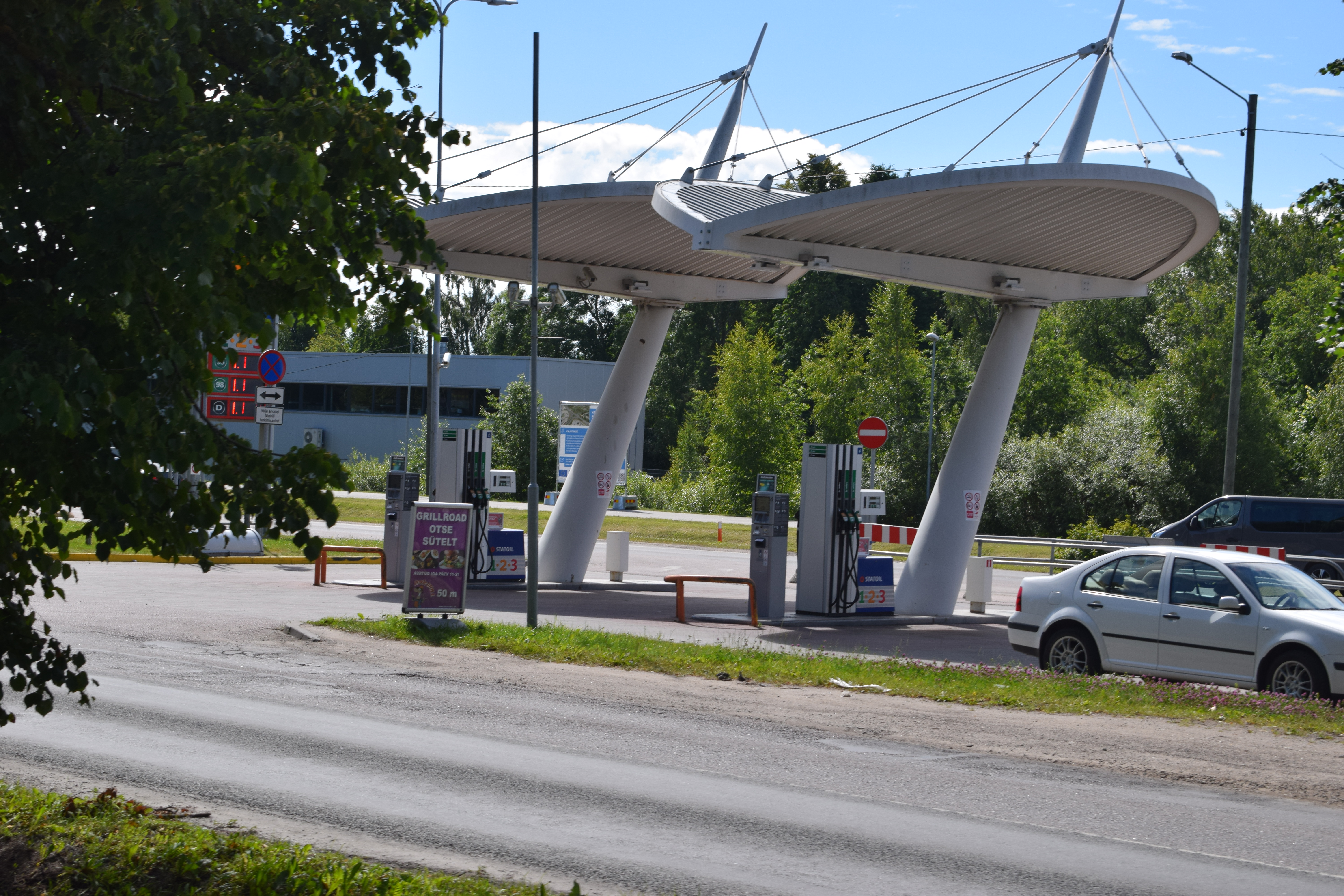 Circle K Rannamõisa automaat - Vana-Rannamõisa tee 1